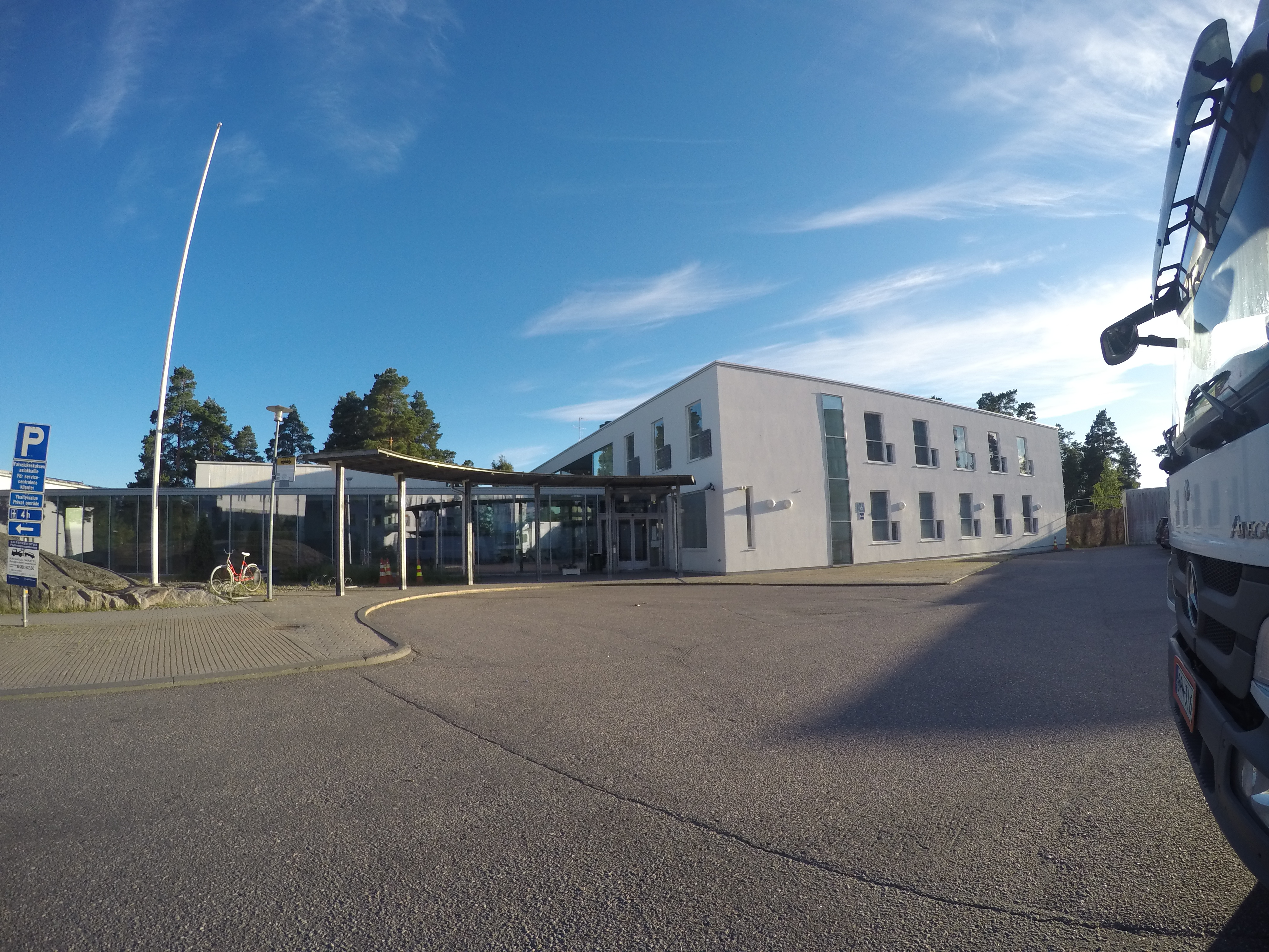 Palvelukeskus Kivitasku, Kivikko, Helsinki, Finland.